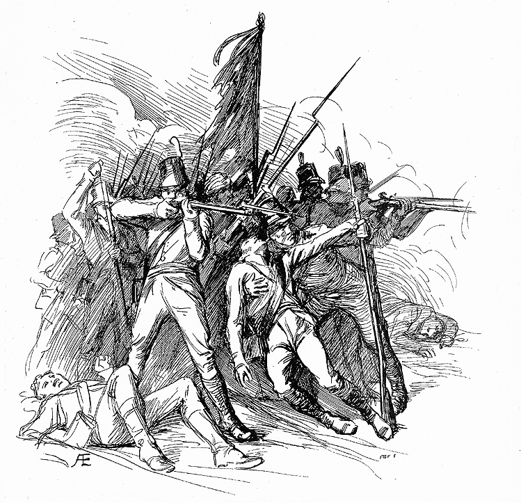 Illustrations by Albert Edelfelt to the poem Porilaisten marssi